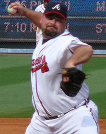 Bob Wickman 19:44, 5 June 2007 . . Chrisjnelson . . 210×265 (102,604 bytes)